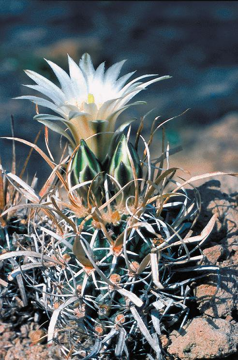 Sclerocactus papyracanthus